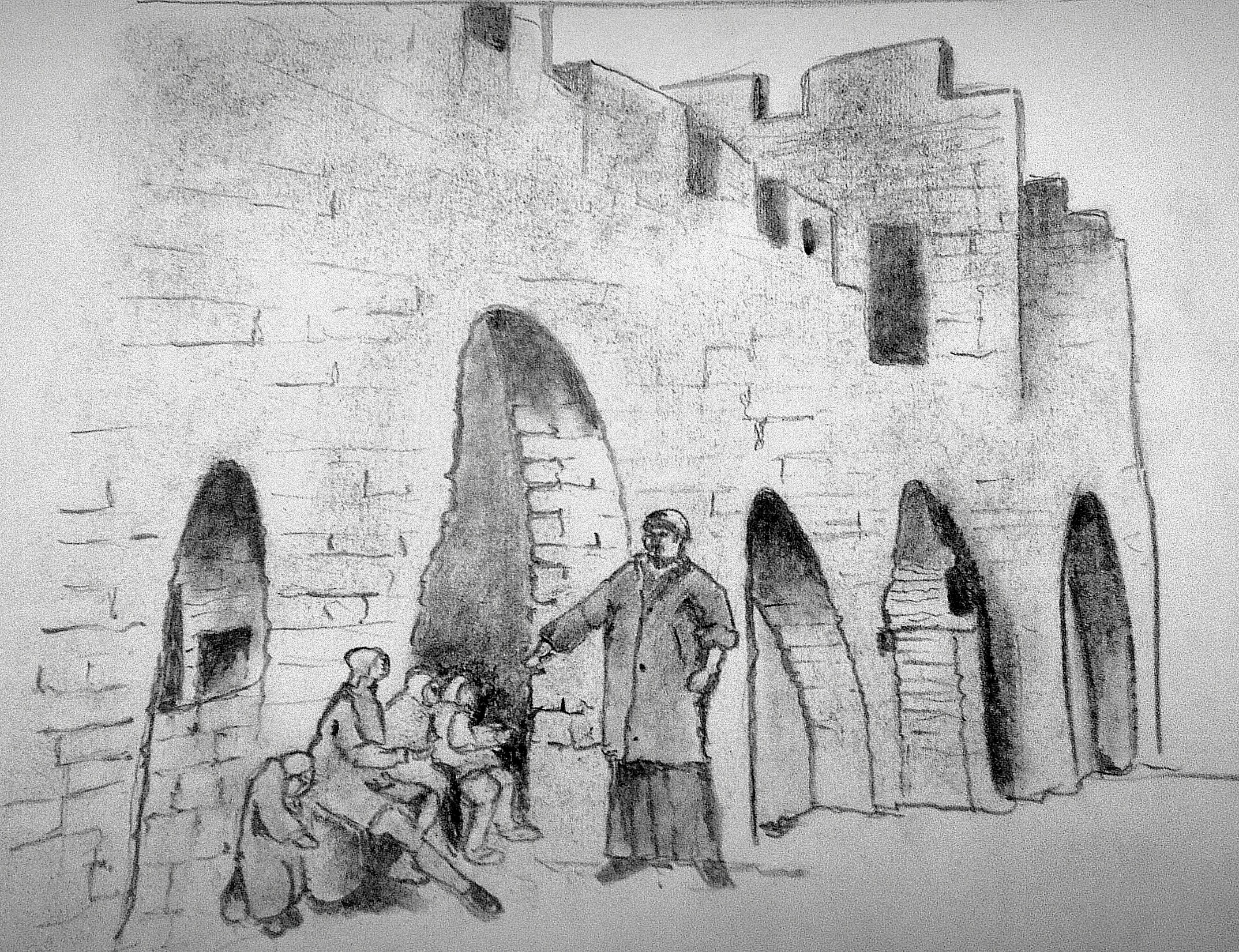 Artist impression of Joannes Roucourt (1636-1676) at the city walls of Brussels, to cleanse the souls and provide alms to civilians suffering of the plague.